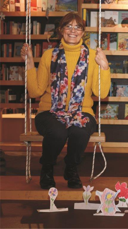 Jasminka Petrović, Serbian writer for children and youth